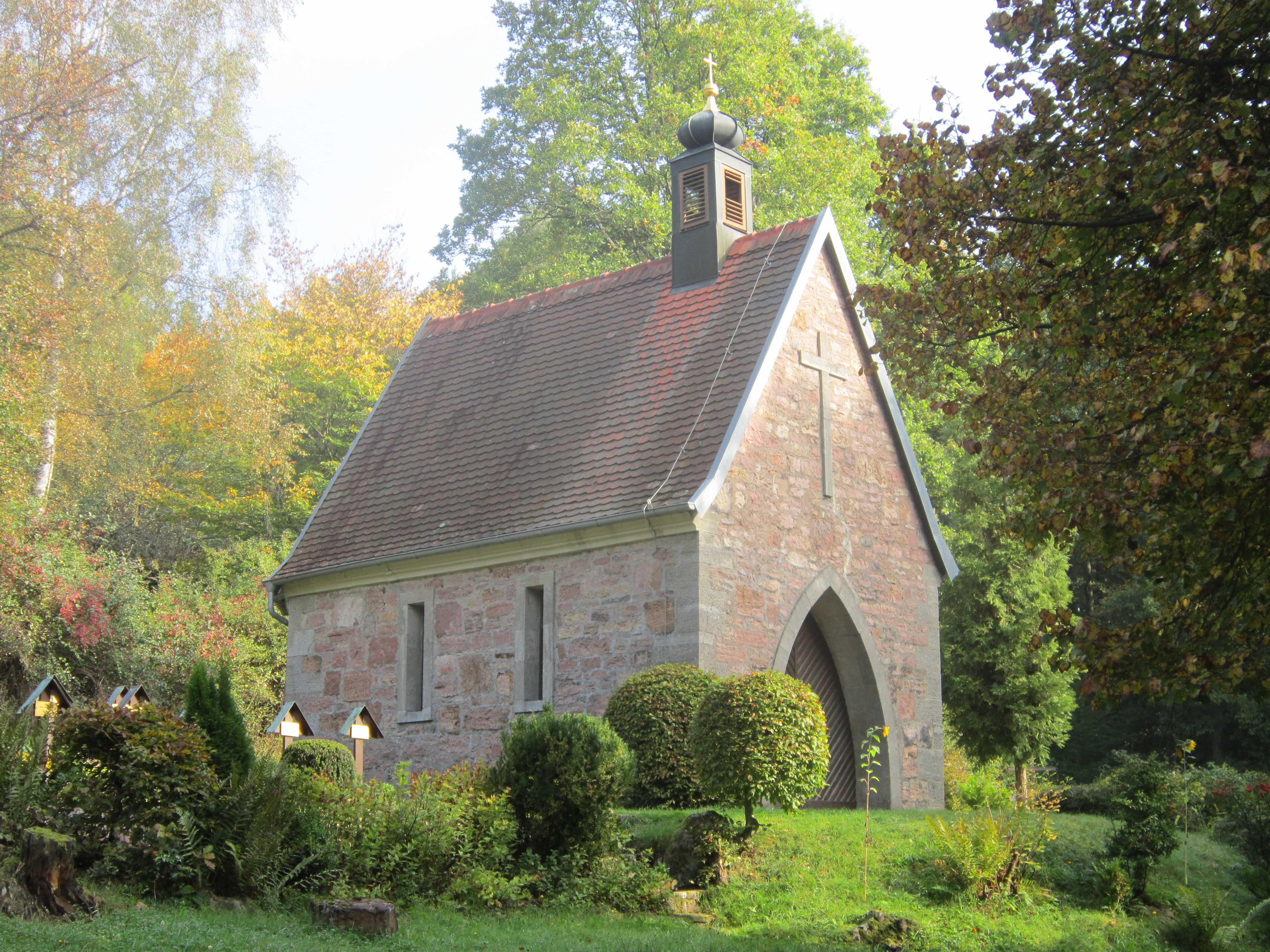 Chapel of the war memorial in Steinach, a quarter of the German spa town of Bad Bad Bocklet in Lower Franconia (Bavaria).